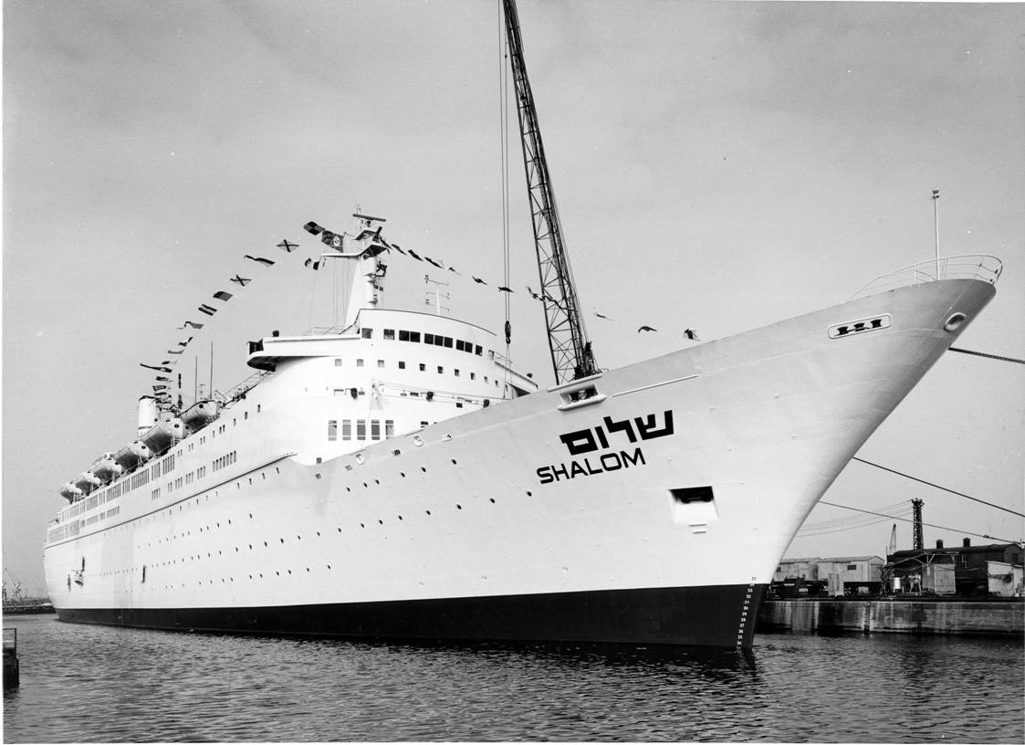 SS-Shalom the ZIM Navigation Company Flag Ship is ready for first voyage after construction. Bow to stern view.